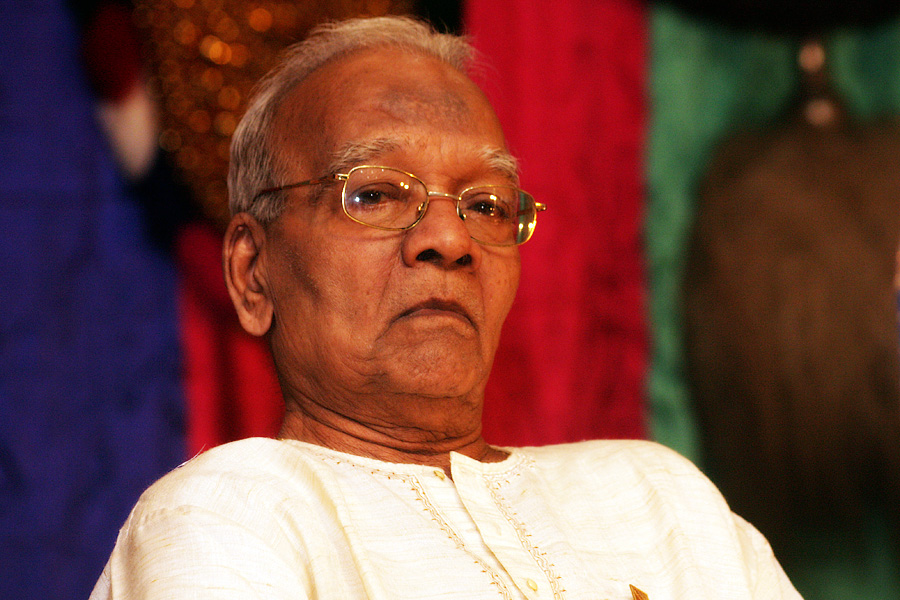 Padma Bhushan Kalamandalam Ramankutty Nair during the 60th birthday celebration of Kalamandalam Ramachandran Unnithan on Jan 21st, 2011 at Guruvayoor.